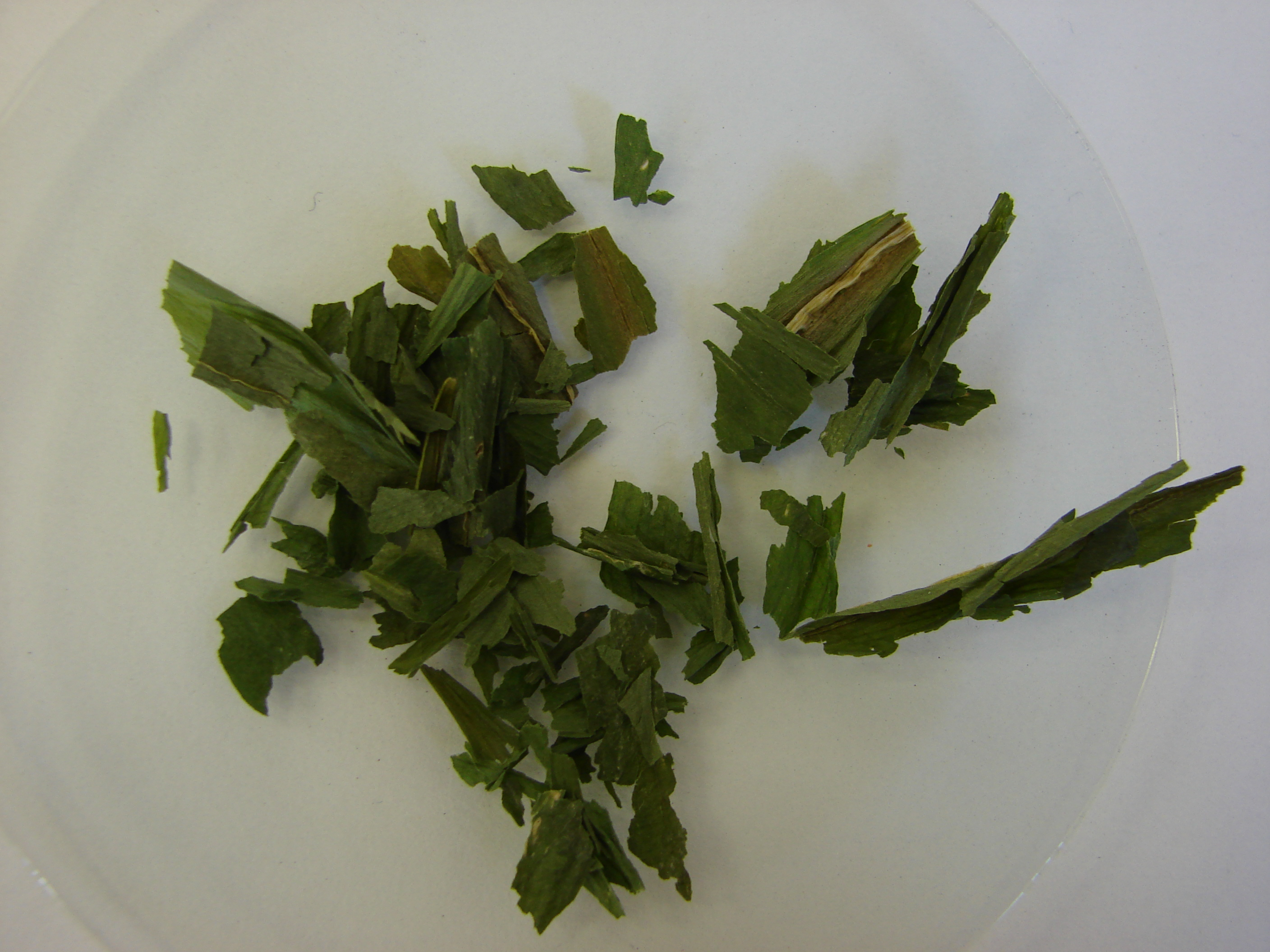 Allii ursini herba, Allium ursinum